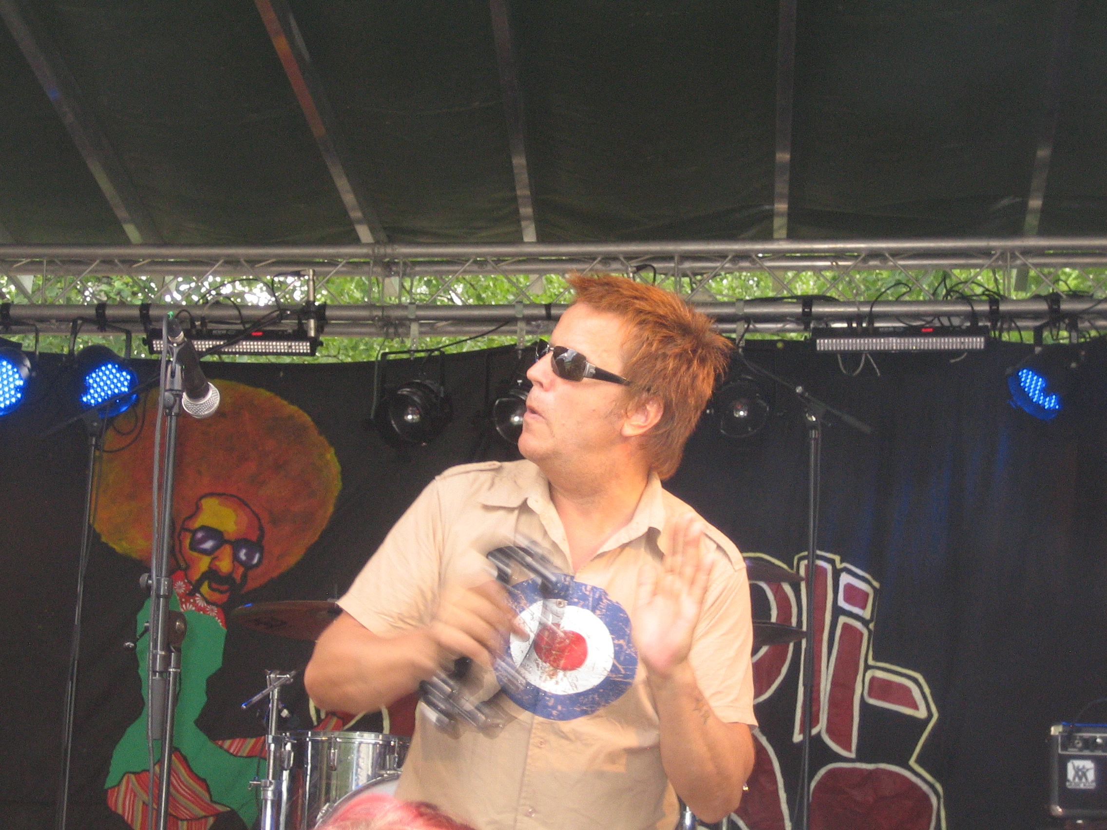 Finnish punk rock singer Tumppi Varonen. July 2011.